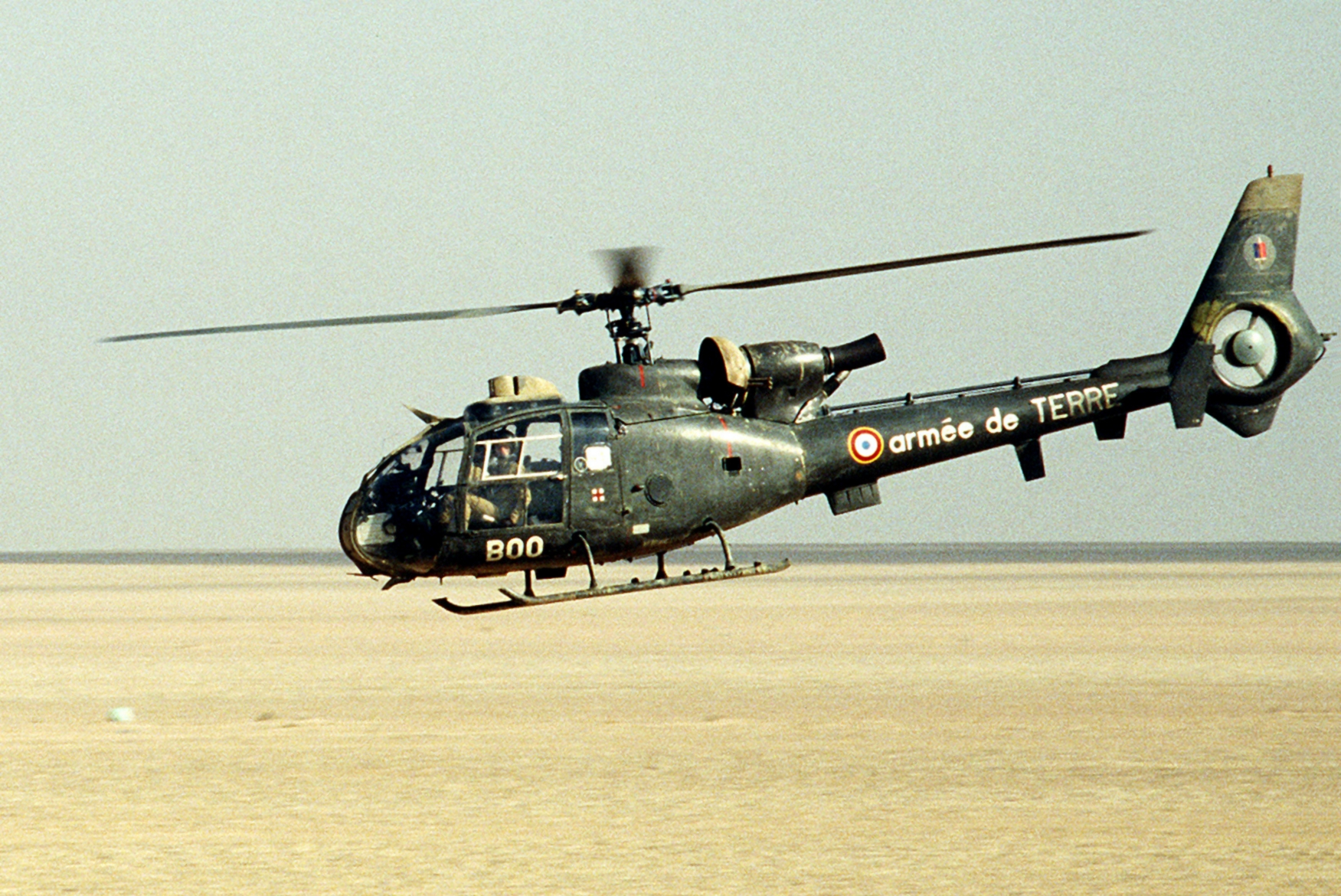 A French army Aérospatiale SA 341F2 Gazelle helicopter in the desert during operation "Desert Shield".